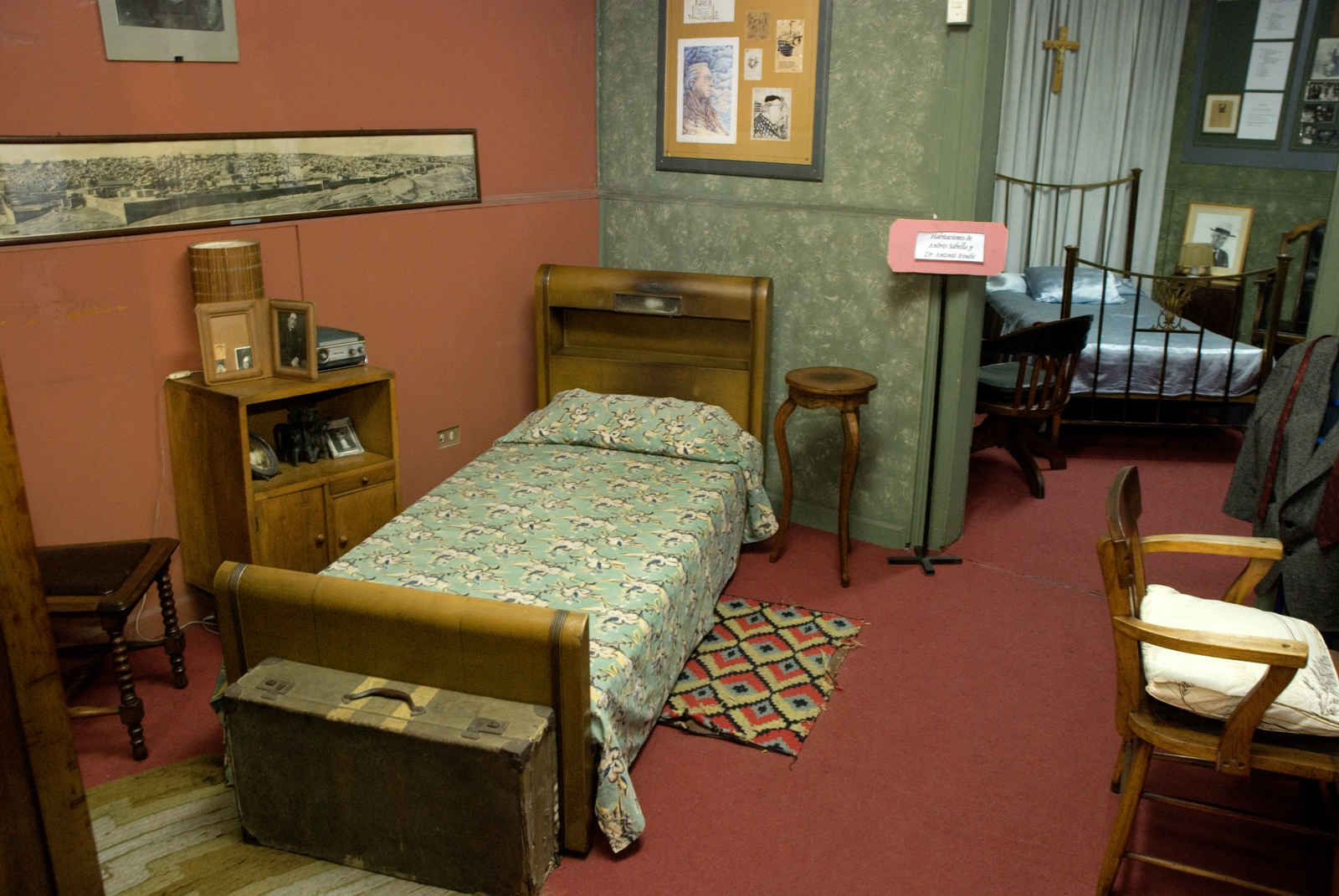 Chilean poeta Andrés Sabella's room at his museum in Antofagasta